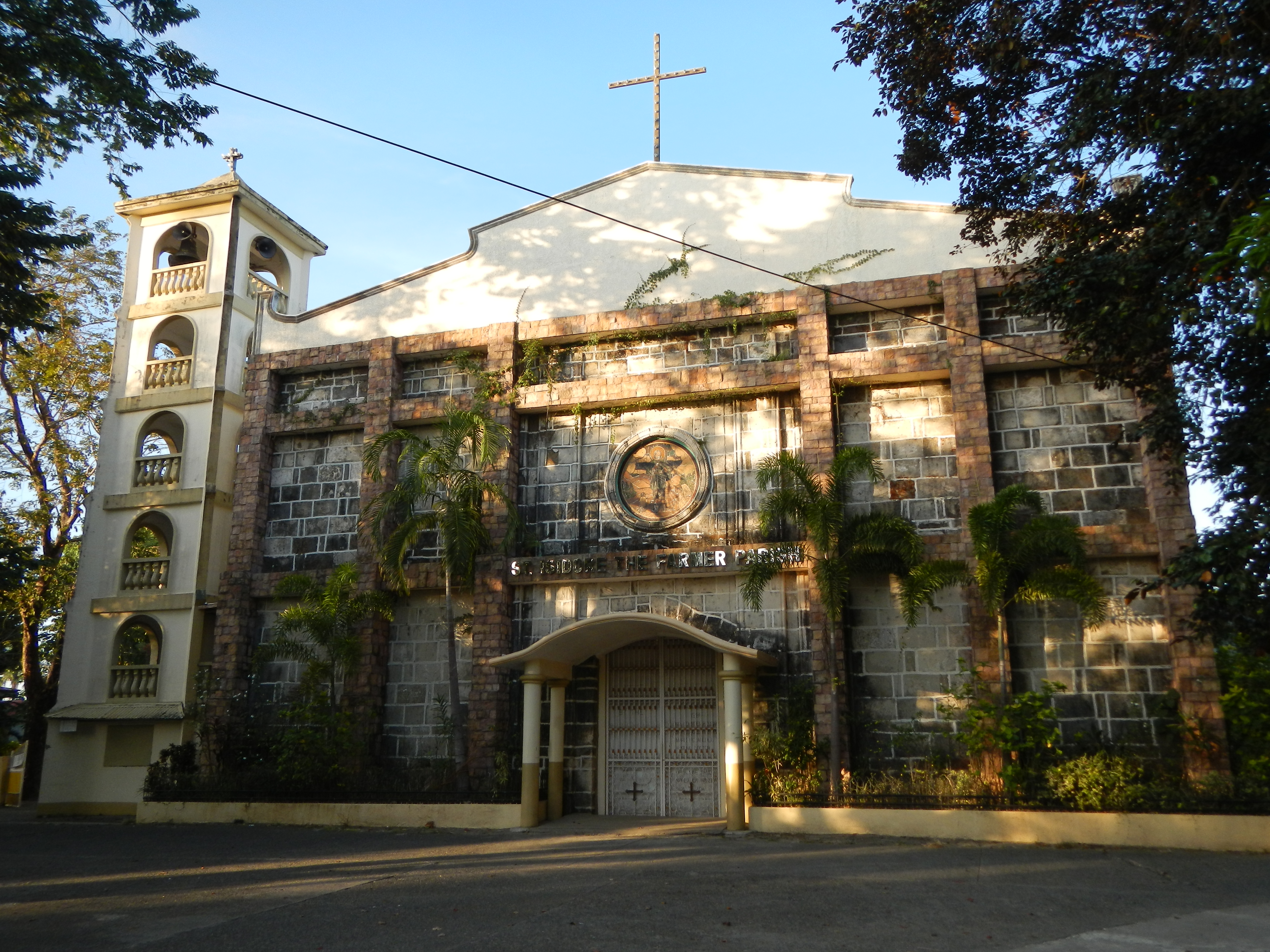 Upload Wizard -- (general description of landmarkds, town, church, going to dark, sunset conditions) - Burgos, Pangasinan,[1] the Town Proper, Poblacion, where the Veterans Federation of the Philippines, Marker Memorial stands beside the Burgos Coverec Court, Auditorium and Town Plaza, Municipal Stage and near the Burgos Town Hall, in the center is the statue of the Town's Martyr Padre José Burgos[2] - Gomburza [3] - beside the Saint Isidore the Farmer Parish Church of Burgos, beside the St. Isidore Learning Center, [4] F-1876 2410 Pangasinan Titular: St. Isidore the Farmer, May 15 Parish Priest - Fr. Romeo V. Tandoc[5] Roman Catholic Diocese of Alaminos Vicariate of Our Lady of Lourdes Vicar Forane: Father Raymond R. Oligane.